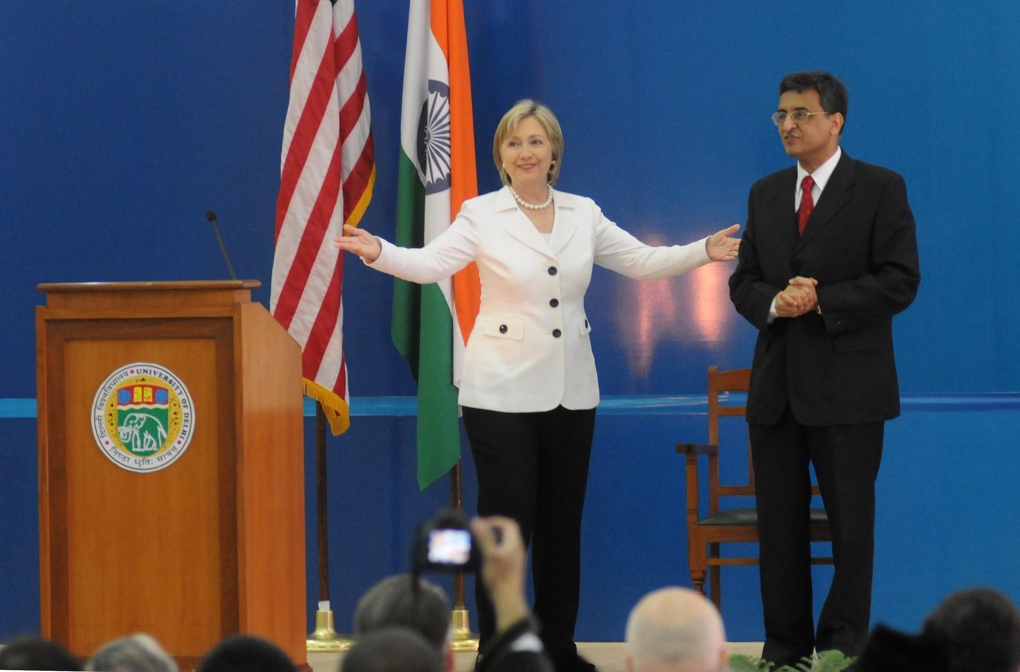 U.S. Secretary of State Hillary Rodham Clinton speaks at the University of Delhi in New Delhi, India July 19, 2009. [State Department photo]